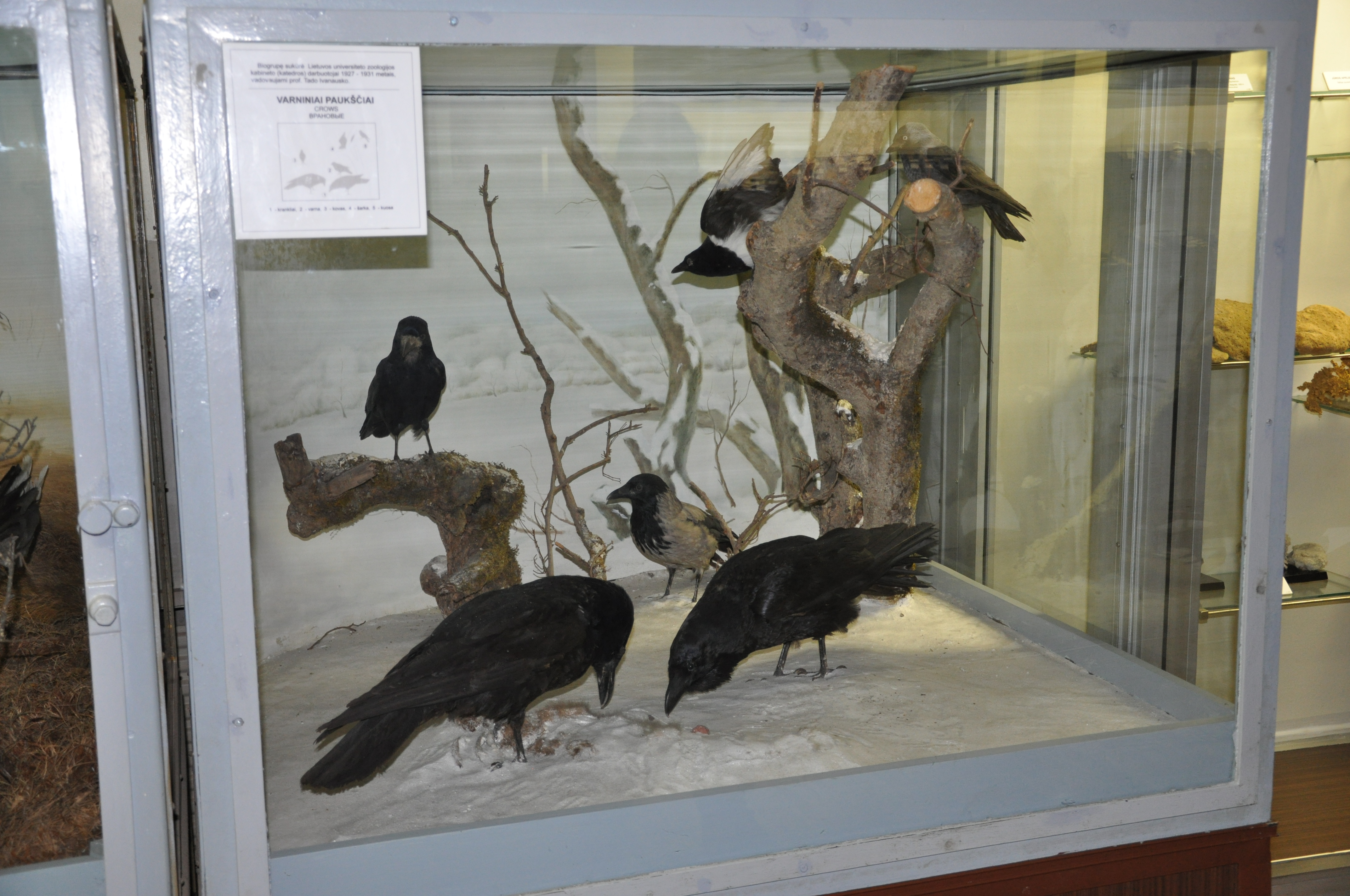 Kaunas Tadas Ivanauskas zoological museum: Crows biogroup created in 1927-1931.